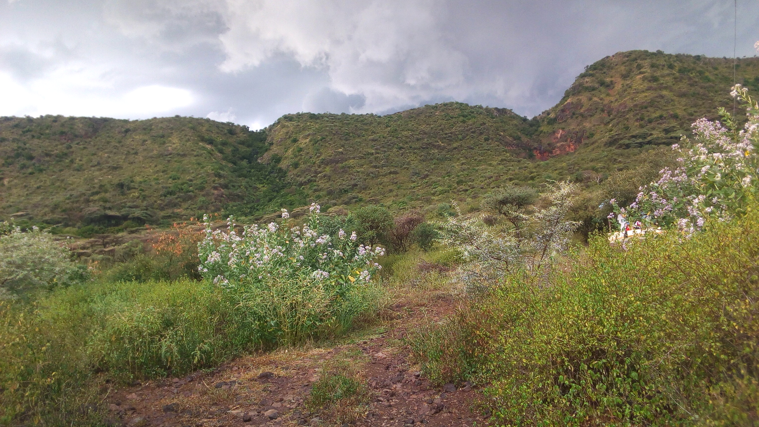 This is an image with the theme "Africa on the Move or Transport" from: Kenya